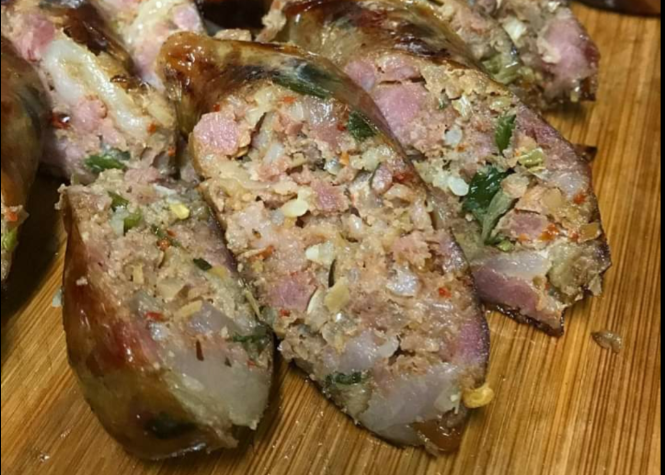 Sliced Lao Sai Oua